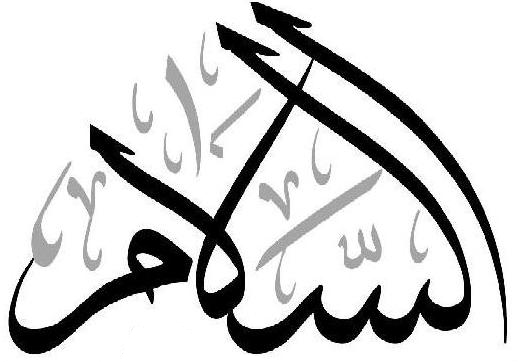 6 Name of Allah